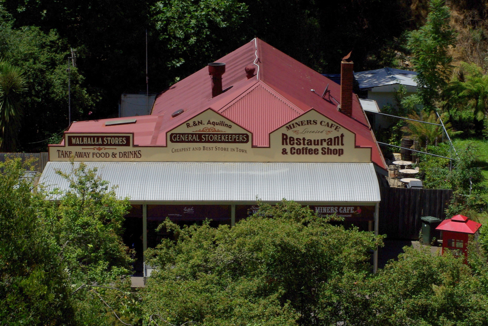 General store and cafe in Walhalla, Victoria.